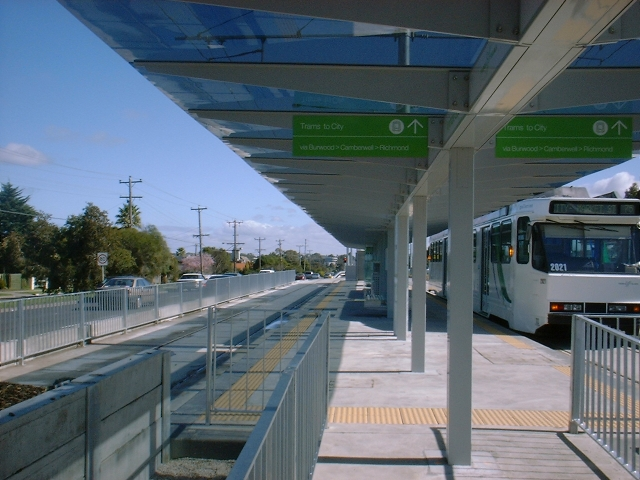 Picture taken myself on 20/8/2005. Anyone can use this image for any reason.